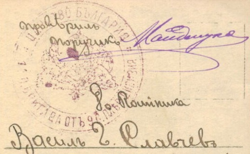 9th Pleven Division 1st Brigade